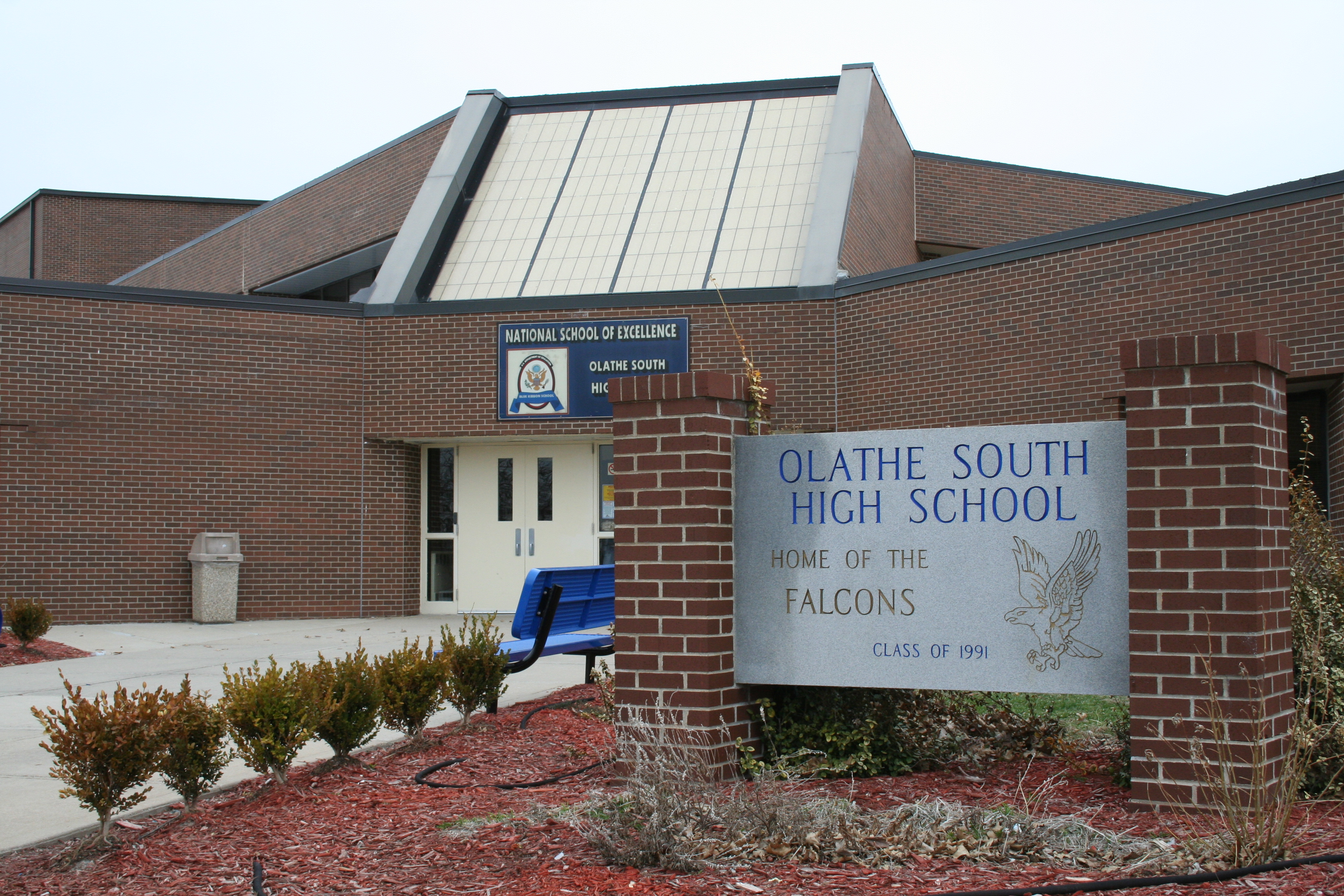 A photo of the front door of Olathe South High School in Olathe, Kansas.